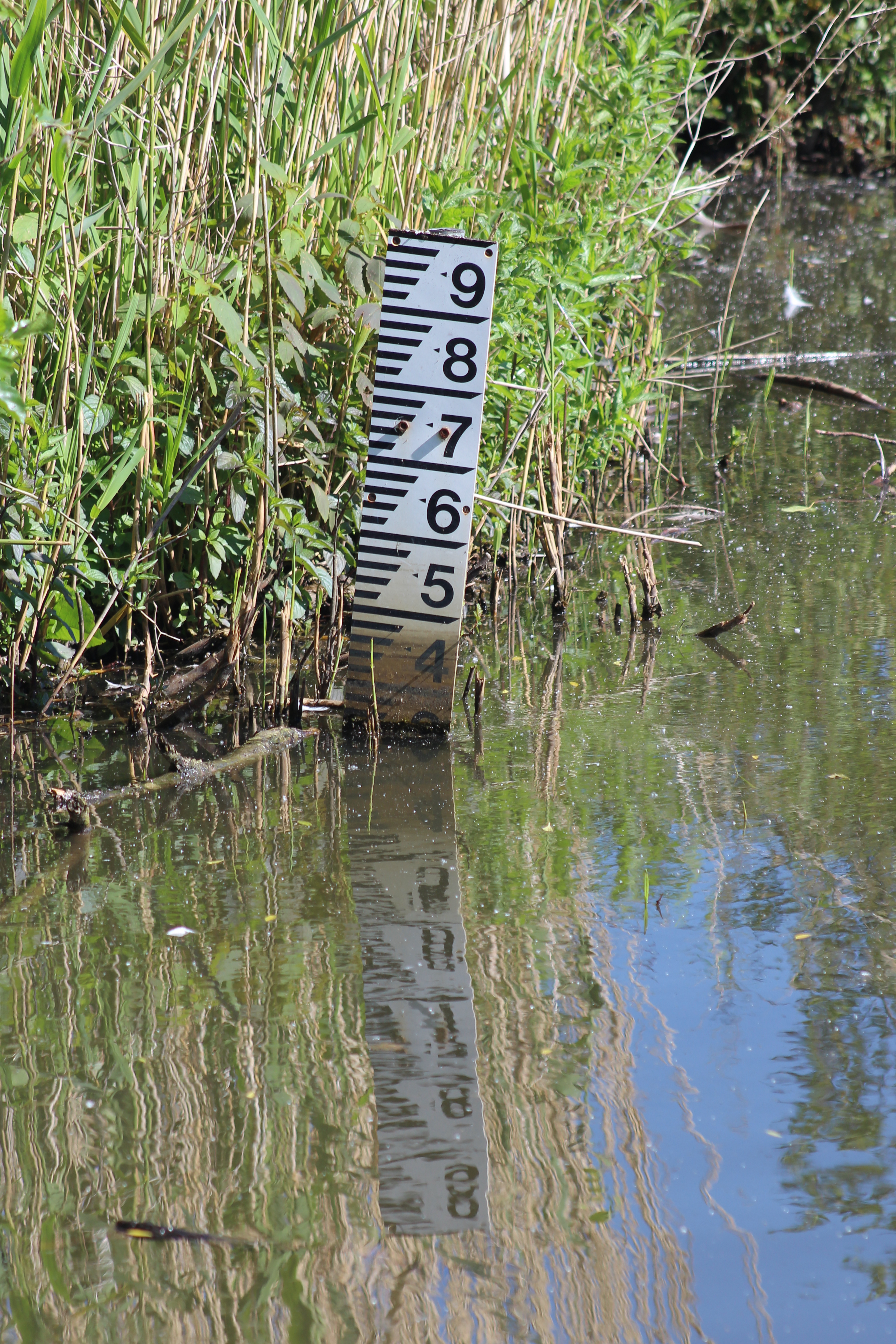 Water level gauge close to the slipway, Fleet Pond calibrated in units of 0.1 metres. The pond has a number of such gauges that are monitored weekly.